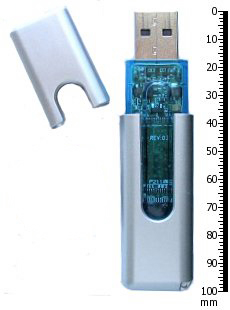 The device pictured is a 128MiB PNY Attaché USB flash drive. Like many such drives, this model features a removable cap (which protects the type-a male USB connector) and a hole or loop through which a string or wire loop can be attached (barely visible in this photo, on the flash drive's lower right corner).